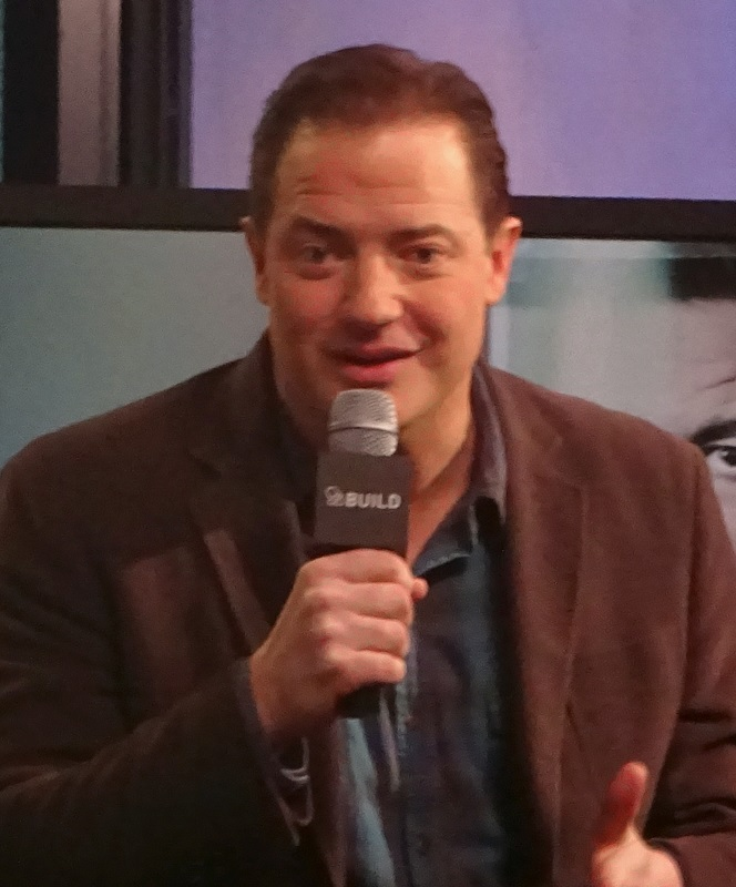 Brendan Fraser in an interview about Season 3 of The Affair.